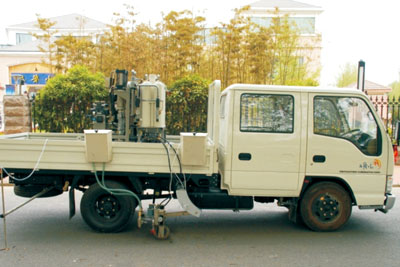 special road marking truck, composed by a special truck and a road marking device